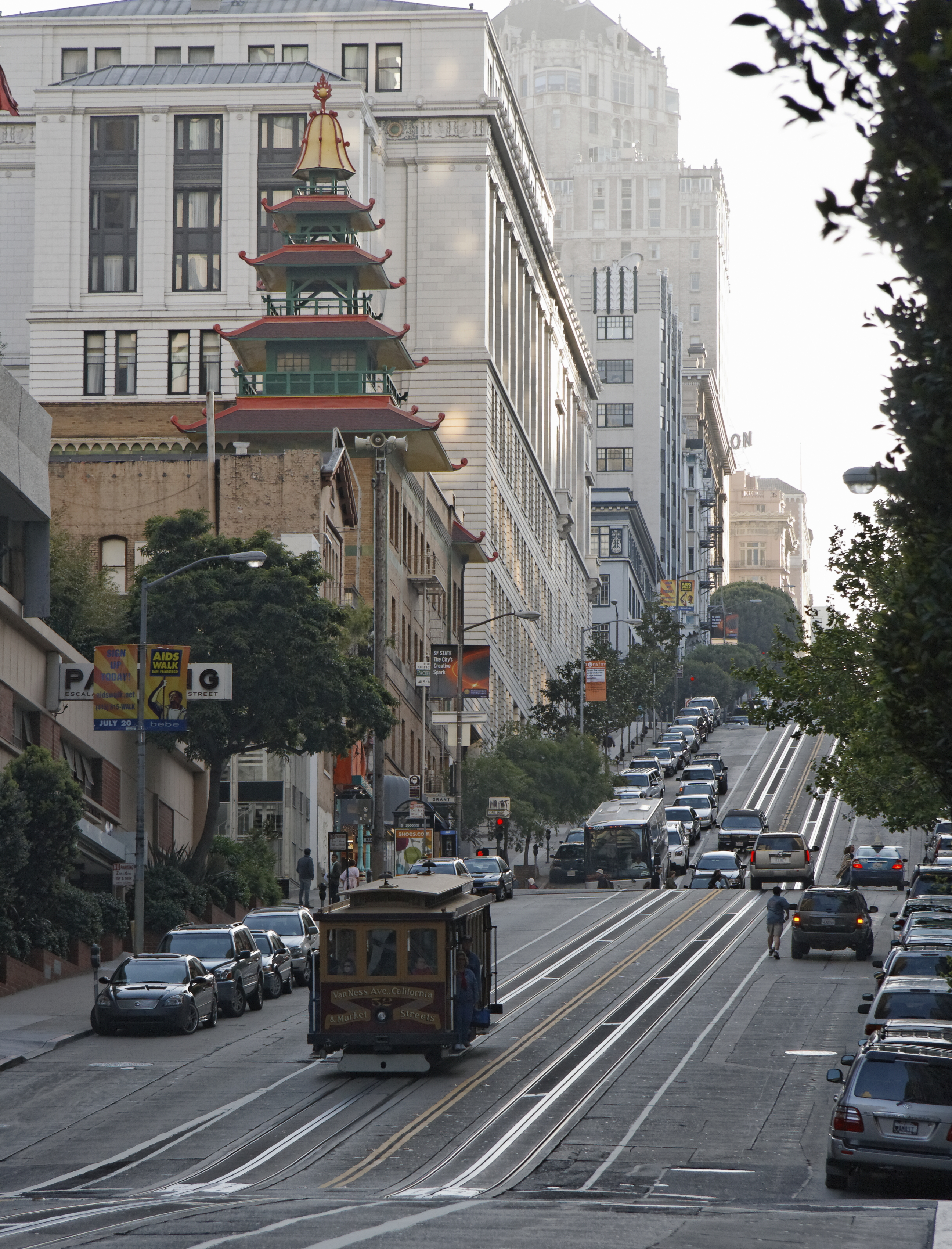 San Francisco Cable Cars